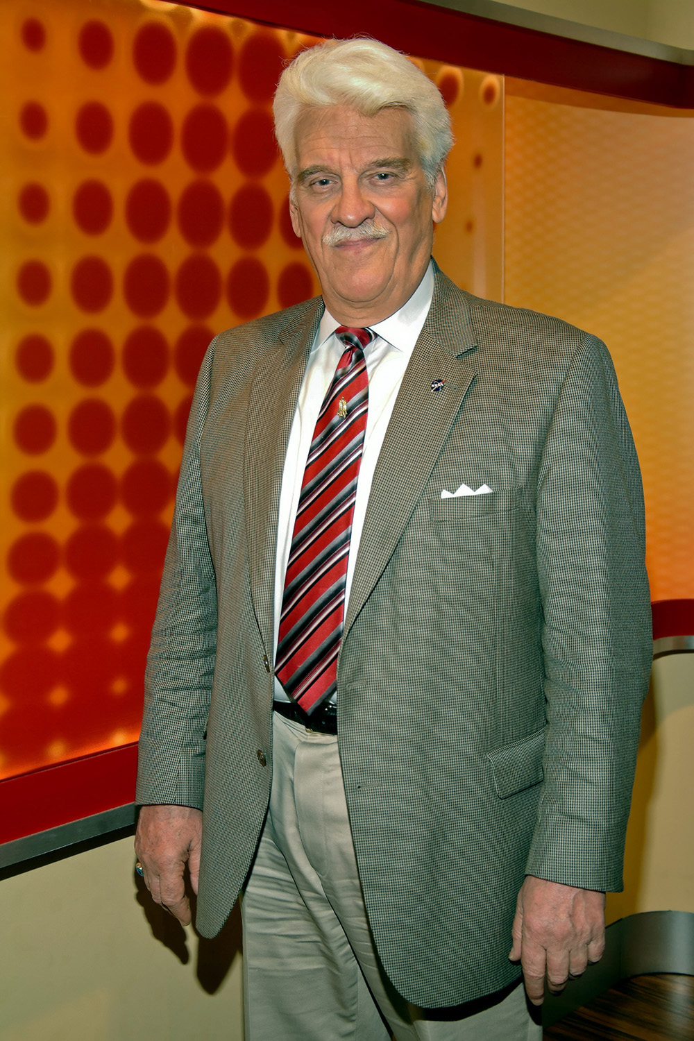 Jesco von Puttkamer at the studio of German television ZDF.